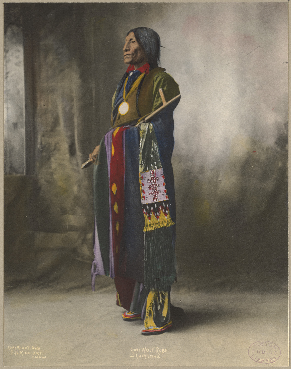 File name: 09_06_000109 Cab no.: Cab 23.41.1 Title: Chief Wolf Robe, Cheyenne Creator/Contributor: Rinehart, F. A. (Frank A.) (photographer) Copyright date: 1899 Physical description: 1 photographic print : platinum, hand-colored Summary: Genre: Platinum prints; Portrait photographs Subjects: Trans-Mississippi and International Exposition (1898 : Omaha, Neb.); Indians of North America; Cheyenne Indians Notes: Rinehart No. 1393 Location: Boston Public Library, Print Department Rights: No known restrictions